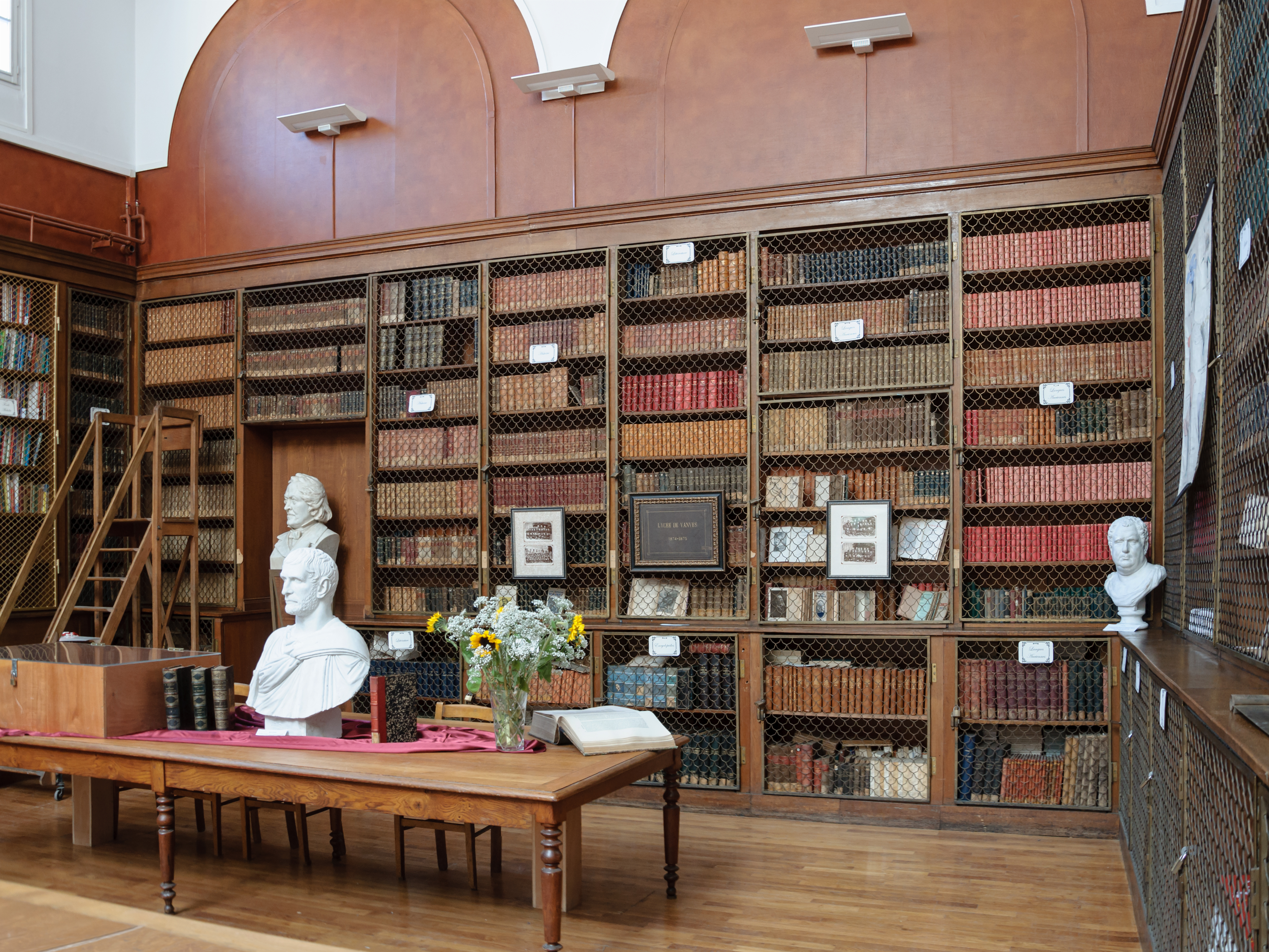 Inside the old library of the Lycée Michelet in Vanves, Hauts-de-Seine, France.